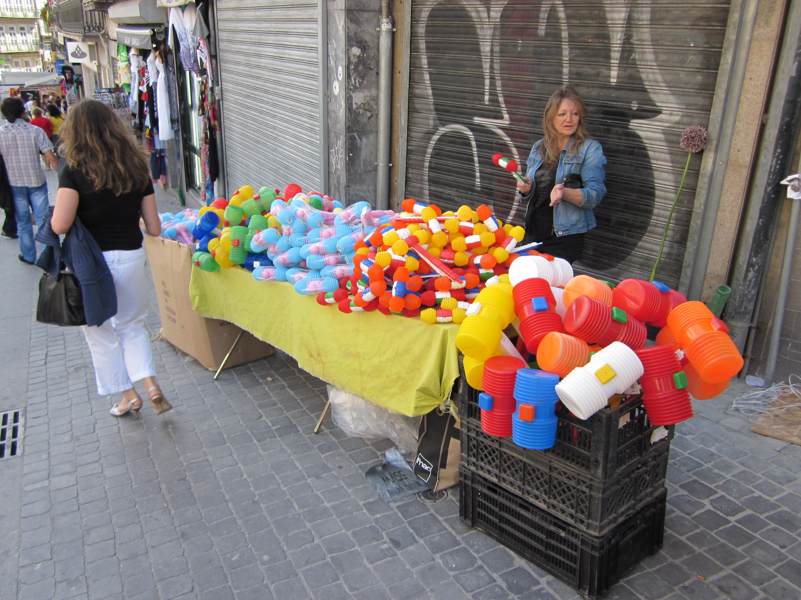 Selling of plastic hammers on the eve of the feast of St. John the Baptist, Praça de Almeida Garrett, Oporto, Portugal.